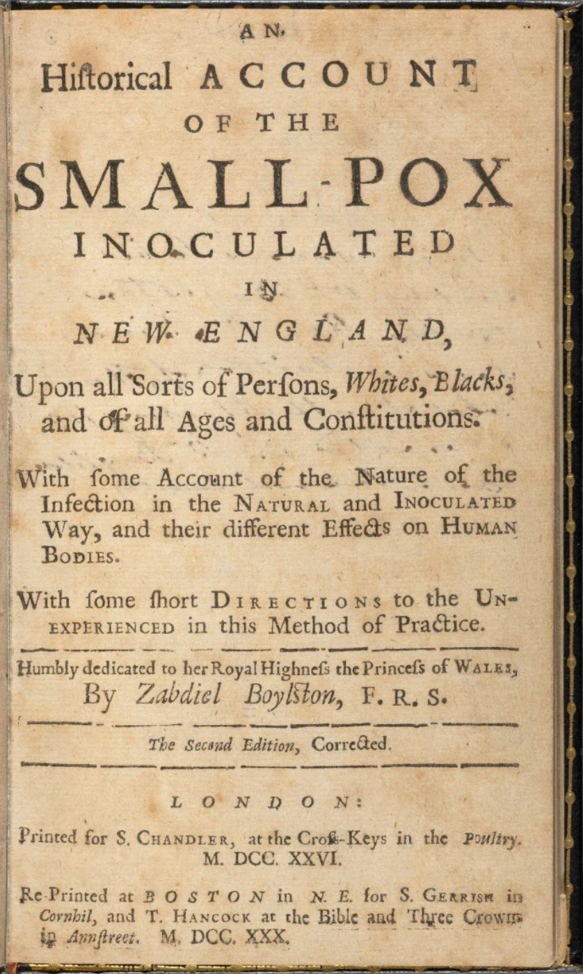 Title page of Zabdiel Boylston's An Historical Account of the Small-pox Inoculated in New England